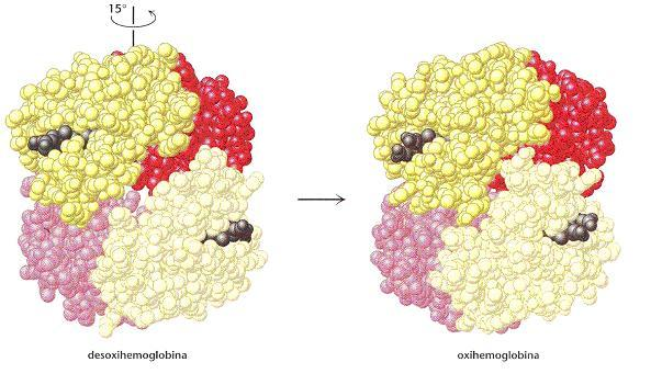 Convi conformacional de l'hemoglobina a passar a oxihemoglobina